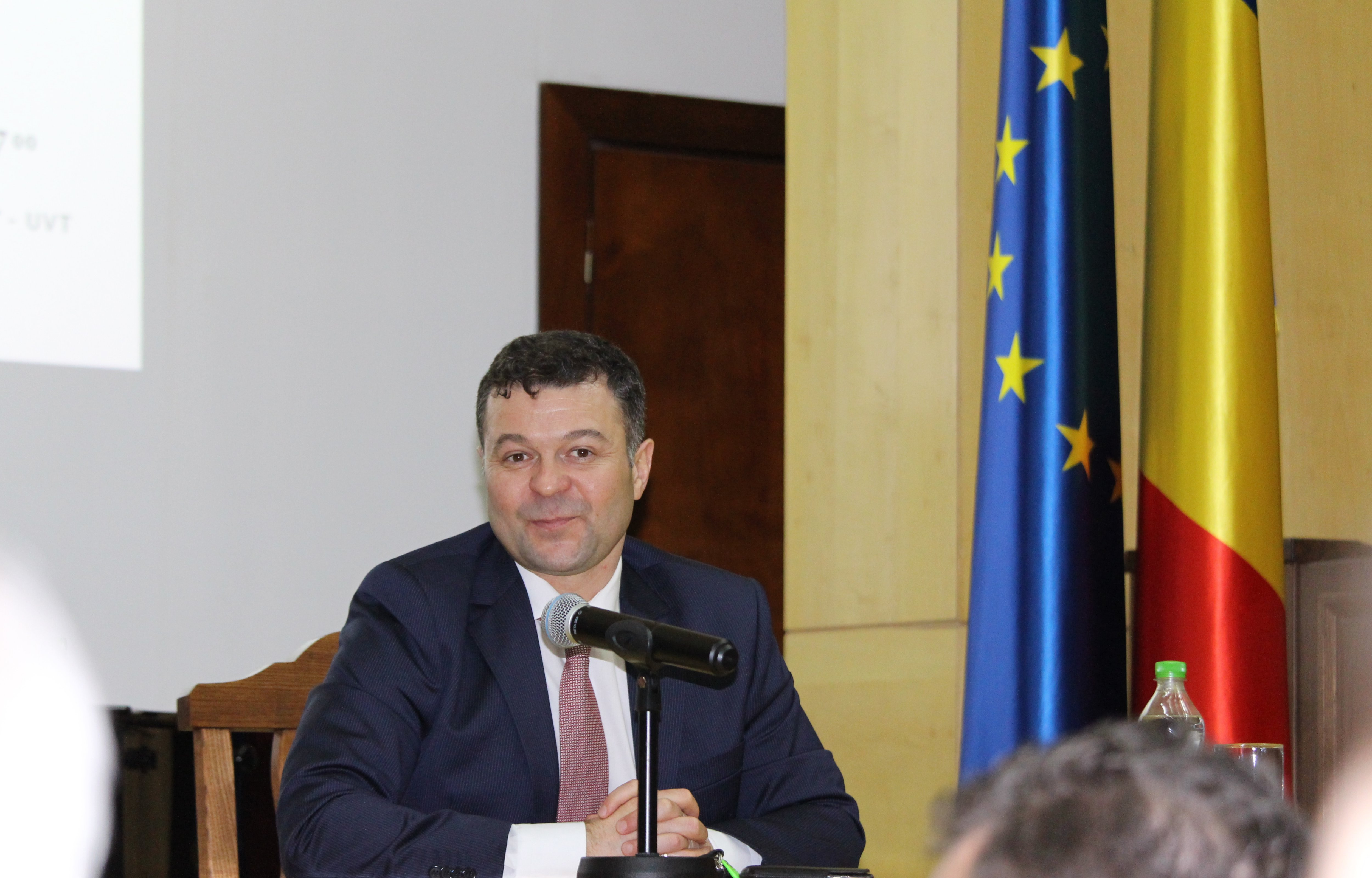 Marilen Pirtea, Rector (2016-2020) of the West Universityof Timisoara, Romania, at a scientific event.